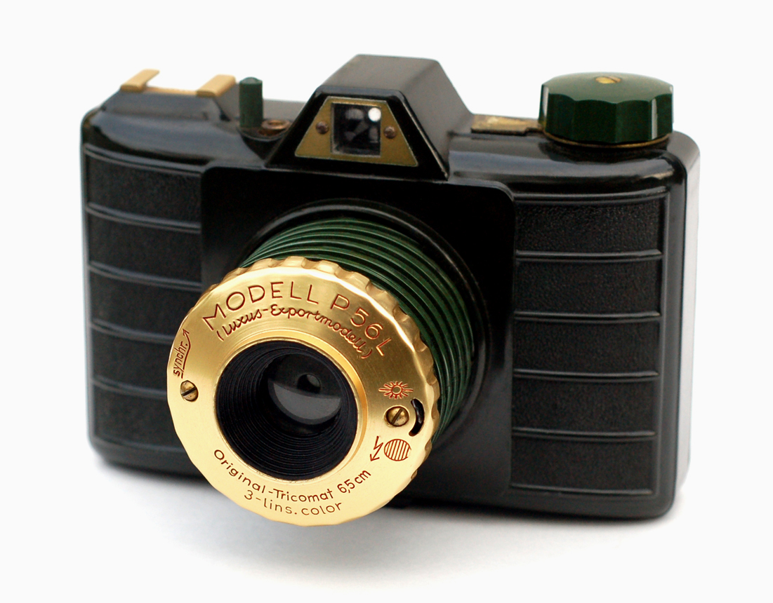 Usually known as the Hamaphot P56L, this camera was manufactured by Apparatebau und Kamerafabrik. Hamaphot was actually the primary distributor, not the maker. I love this camera for its colors -- the body is black; the shutter release, winding knob, and helical telescoping lens tube are forest green, and all the metal parts are gold-colored. It was manufactured in Monheim, Germany in 1956, and is a close cousin of the Pouva Start cameras. I was fortunate enough to acquire this camera as part of a package deal that included two Start cameras!